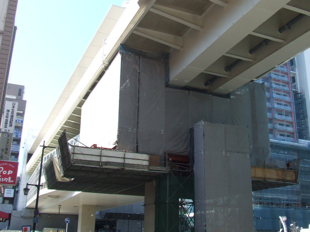 Nippori Station on the Nippori-Toneri Liner under construction in Arakawa, Tokyo